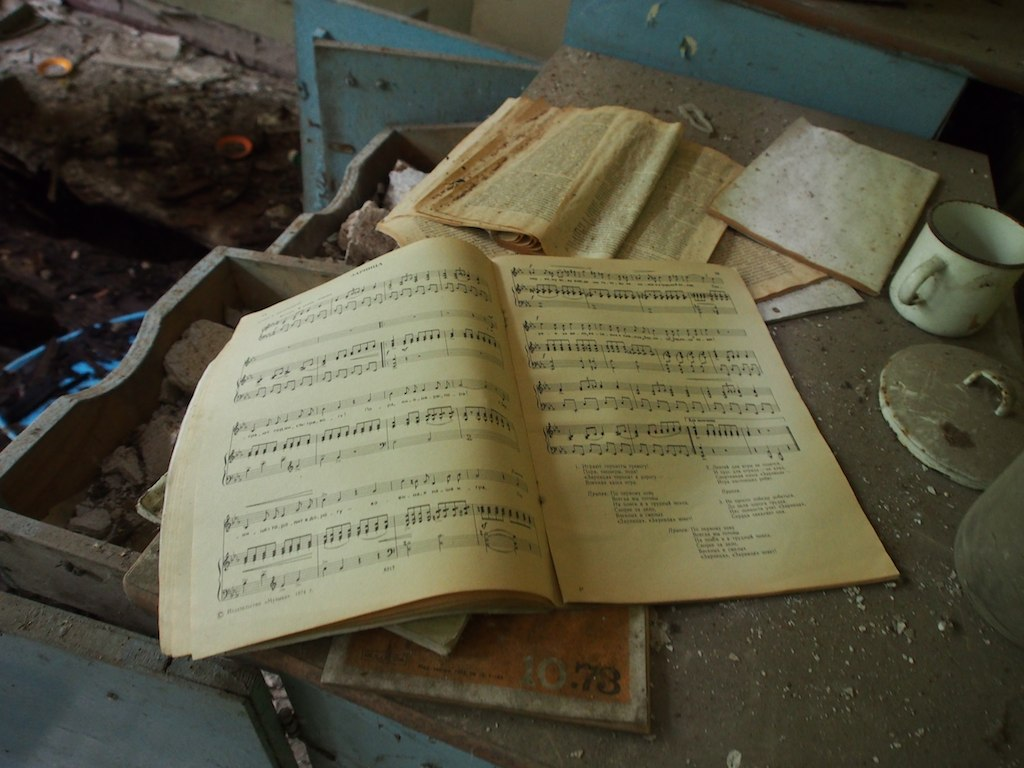 Abandoned school in Kopachi village